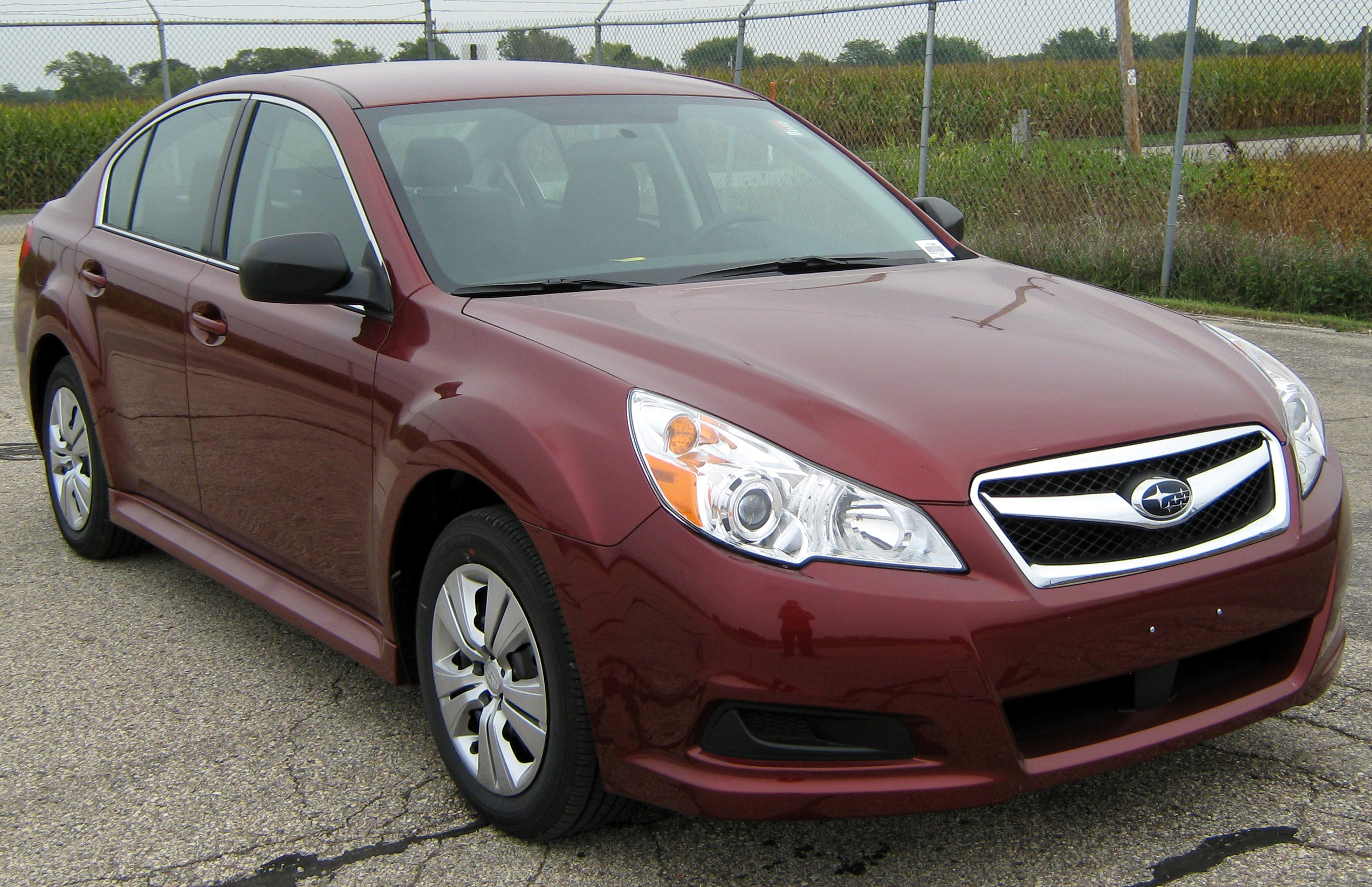 2010 Subaru Legacy photographed in USA.